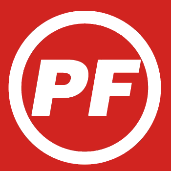 Partido Federal Argentina